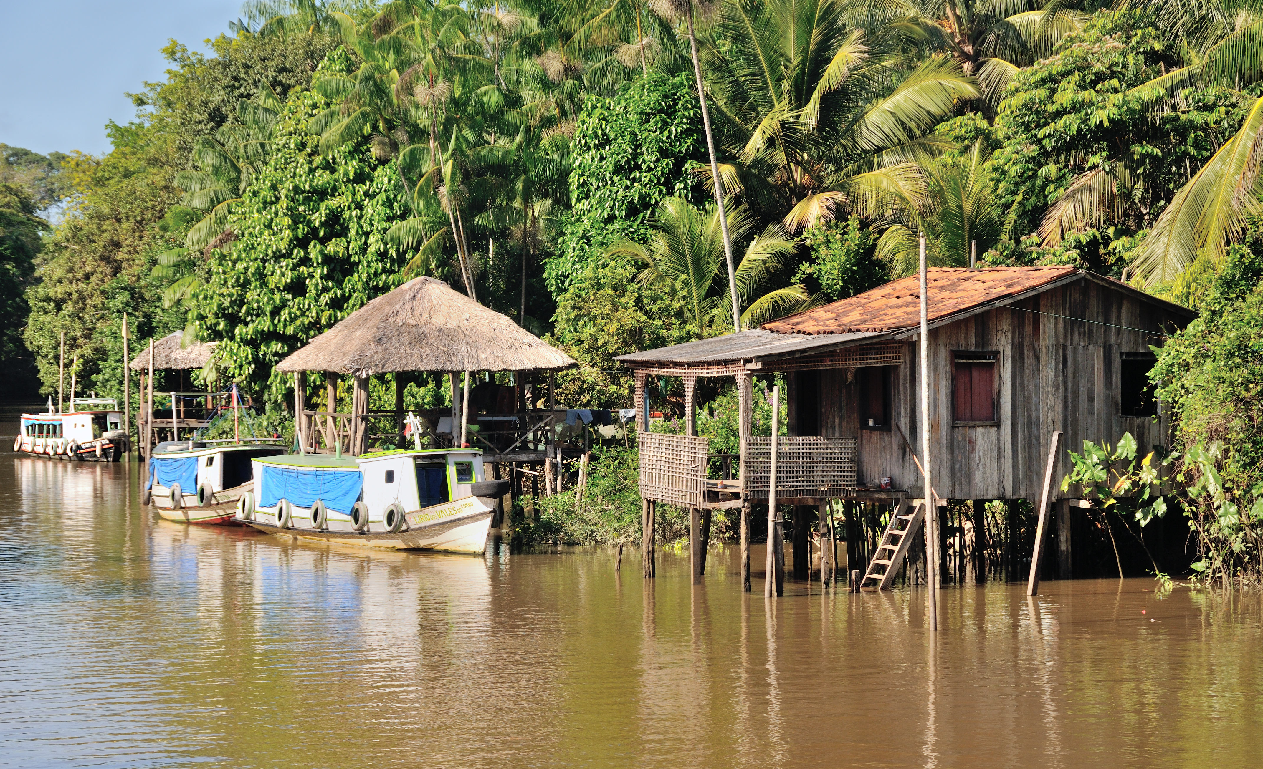 Boat houses on Cumbu Island, Brazil, State of Parà.